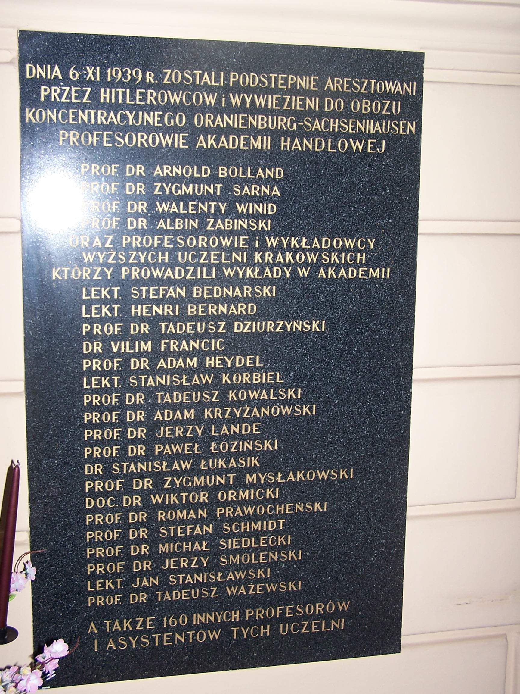 Photo by Piotrus. Tablica pamiatkowa wywiezienia profesorow Akademii Ekonomicznej w Krakowie. Budynek głowny AE w Krakowie. Memorial to professors of Academy of Ecnomics in Kraków arrested by Nazis and sentenced to concentration camps (for 'the crime' of being Polish intelligence). See also: World War II atrocities in Poland